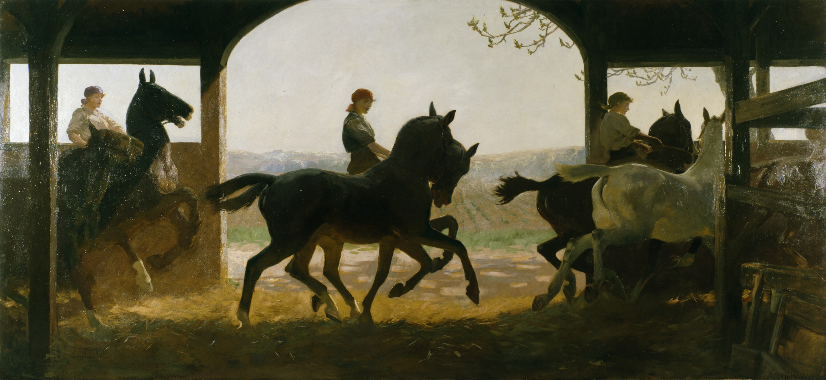 The Straw Ride- Russley Park Remount Dep't, Wiltshire image: Three women exercising horses in a remount depot. They take their charges through their paces in an indoor straw- ride. Each woman rides one horse and leads another.